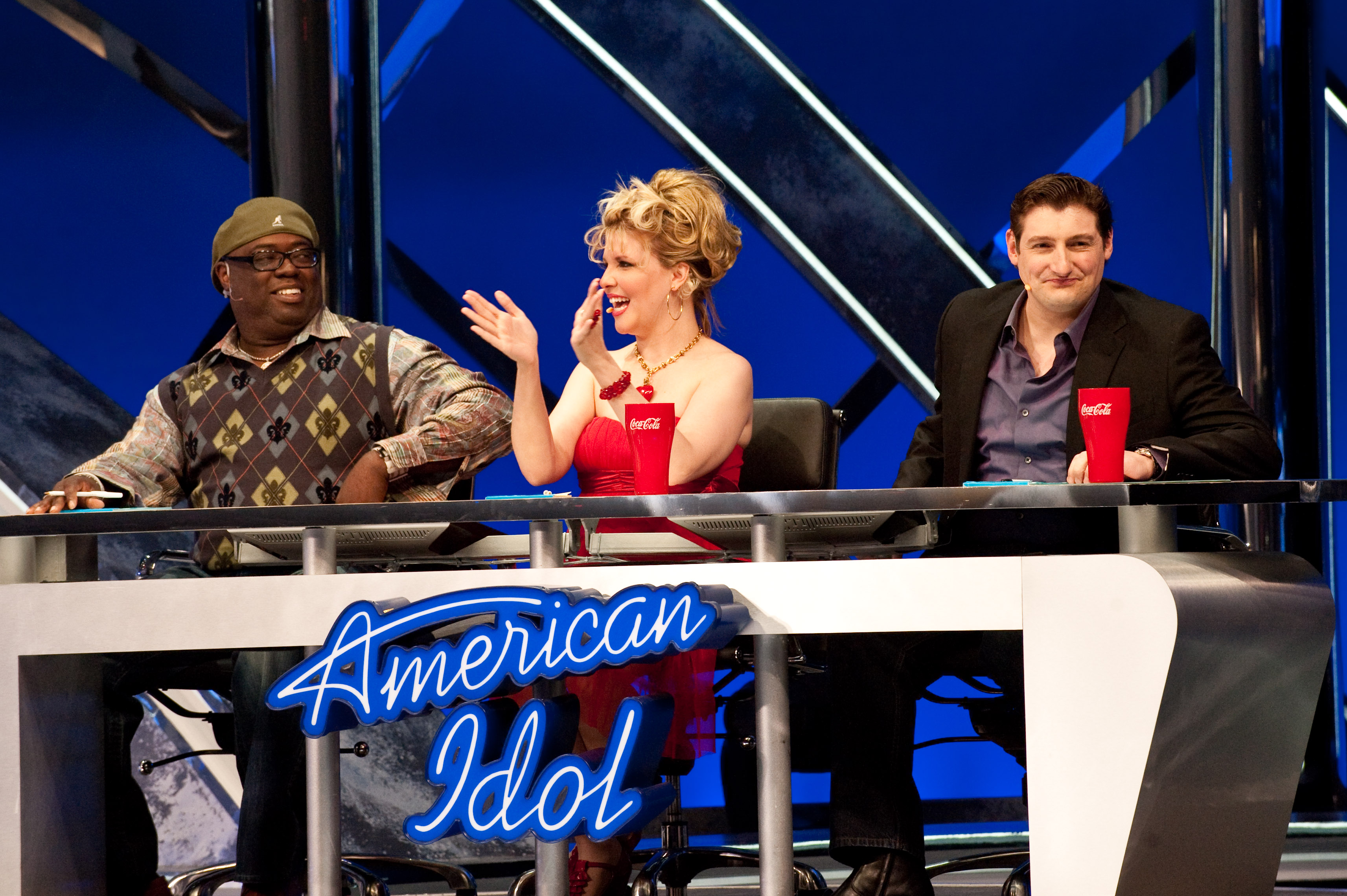 American Idol Experience - Disney's Hollywood Studios